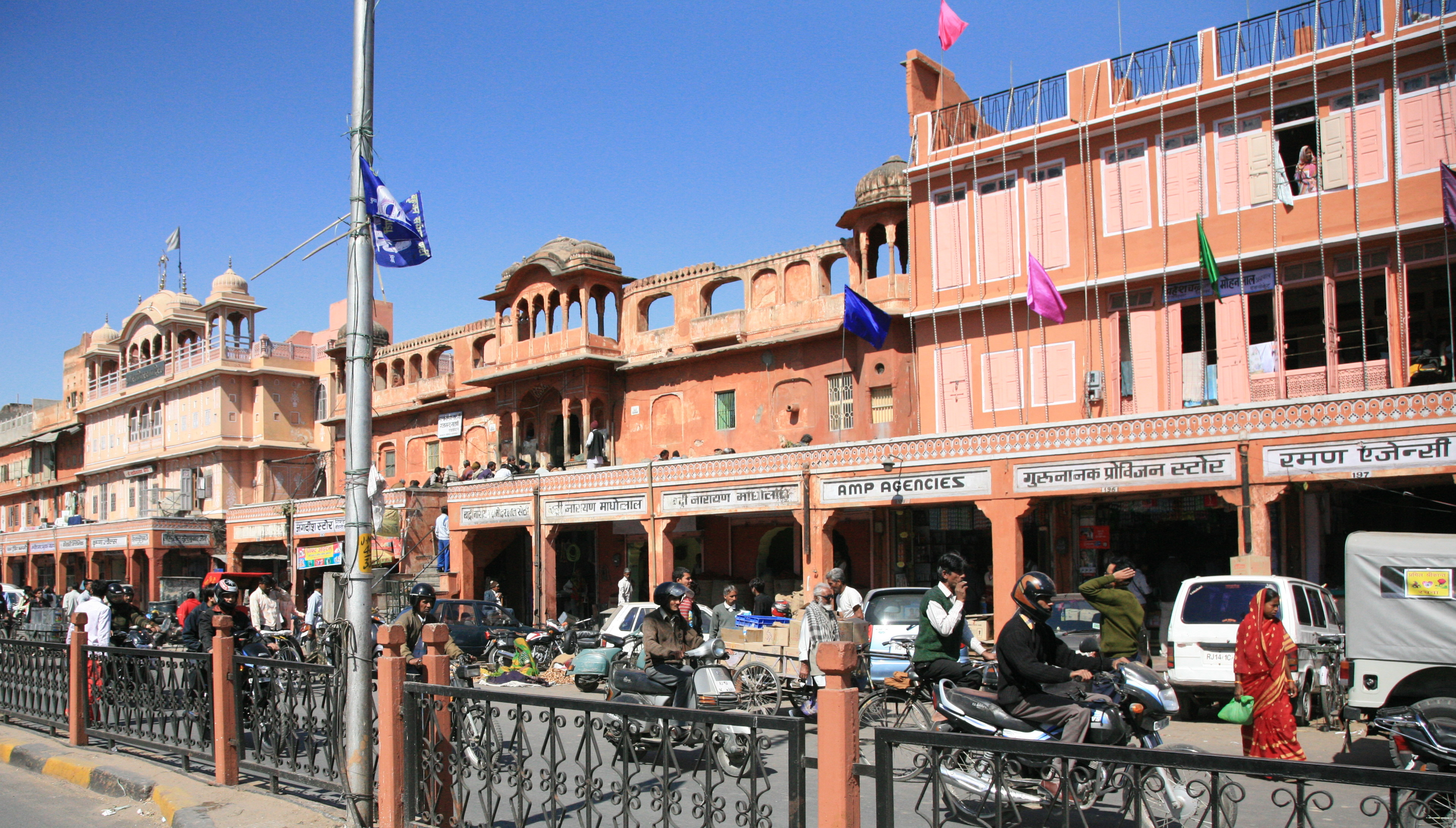 Street life in Jaipur. From Tripolia Bazaar.